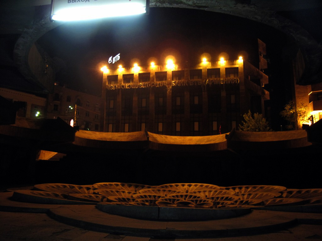 Republic square metro station, Yerevan.